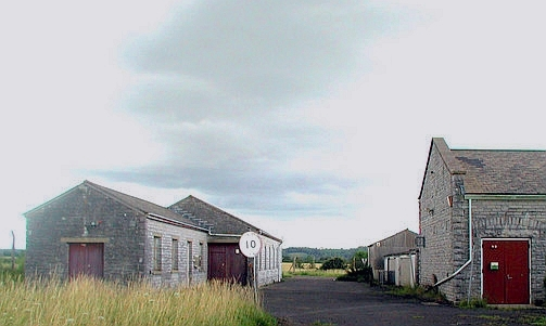 Somerton Radio Station. This are the disused remains of the radio station. When the Marconi Company built the radio stations known as the Imperial Wireless Chain for the Post Office during 1925-26, they also established their own transmitting station at Dorchester with a receiving station 30 miles away at Somerton. (Informationfrom the South Dorset Radio Society website).